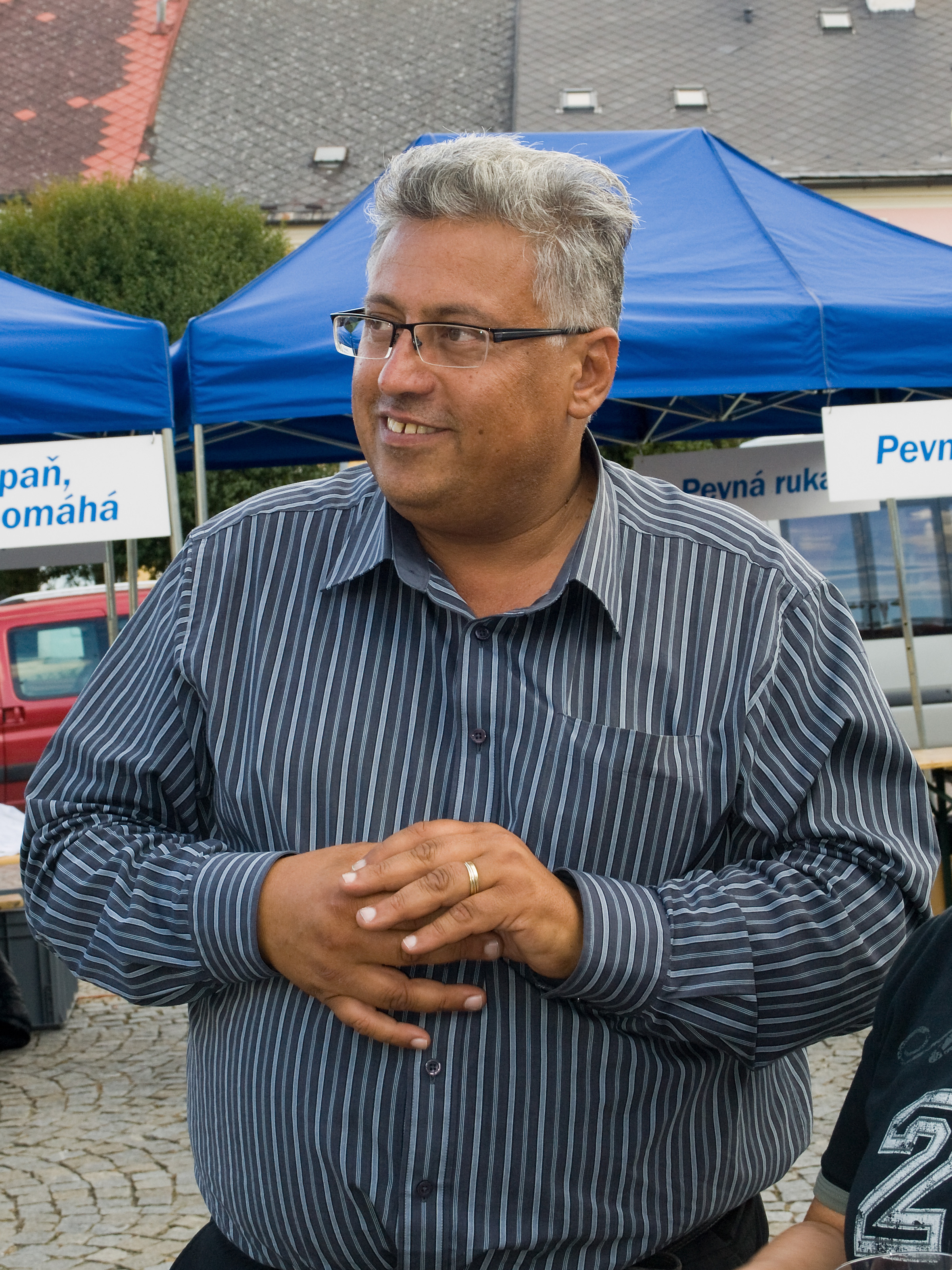 Raduan Nwelati, Czech physician and politician of Syrian descent, mayor of Czech city Mladá Boleslav, during election campaign before Czech regional elections, 2012